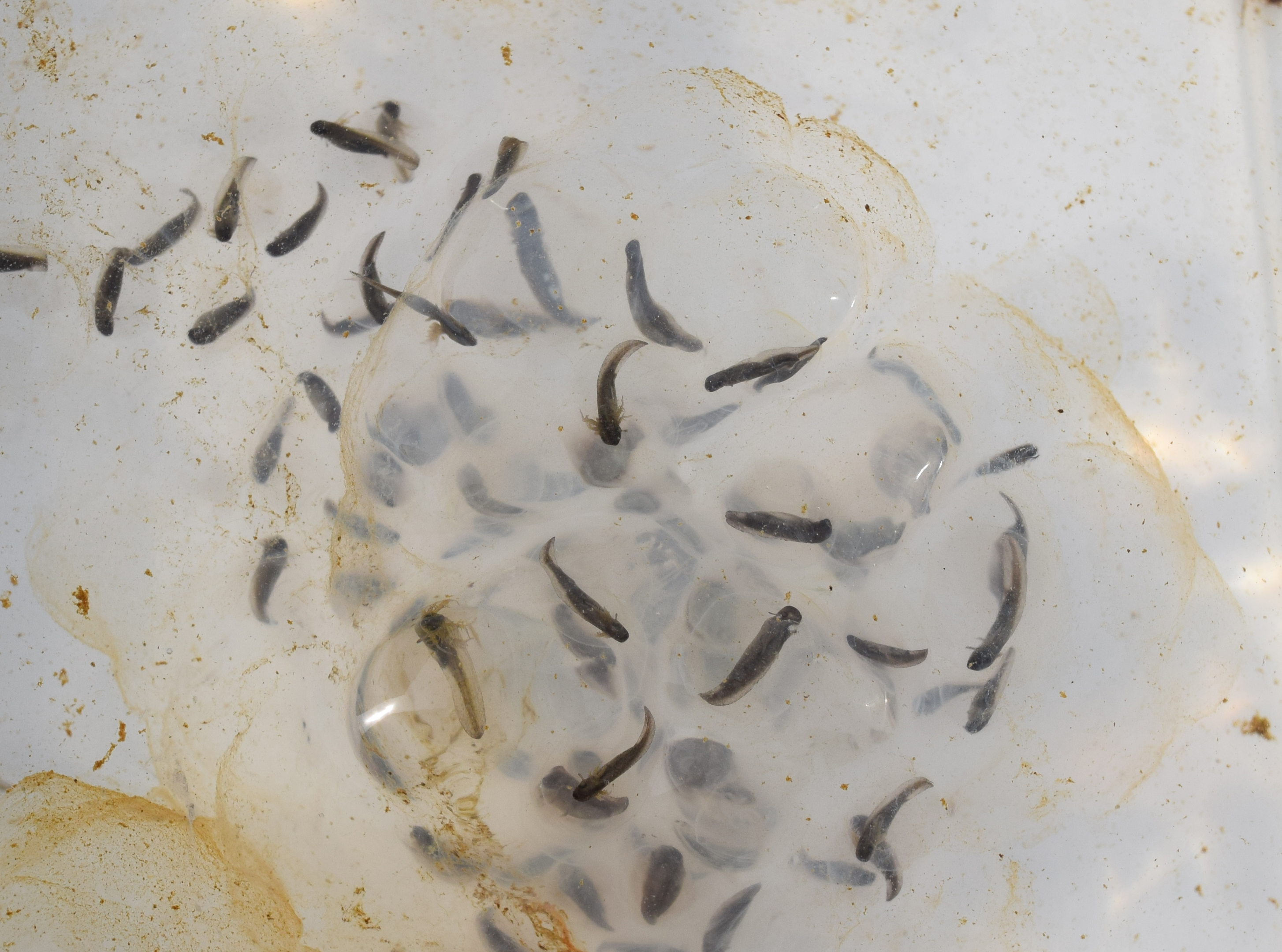 An Ambystoma maculatum (spotted salamander) egg mass with developing larvae at the University of Mississippi Field Station.